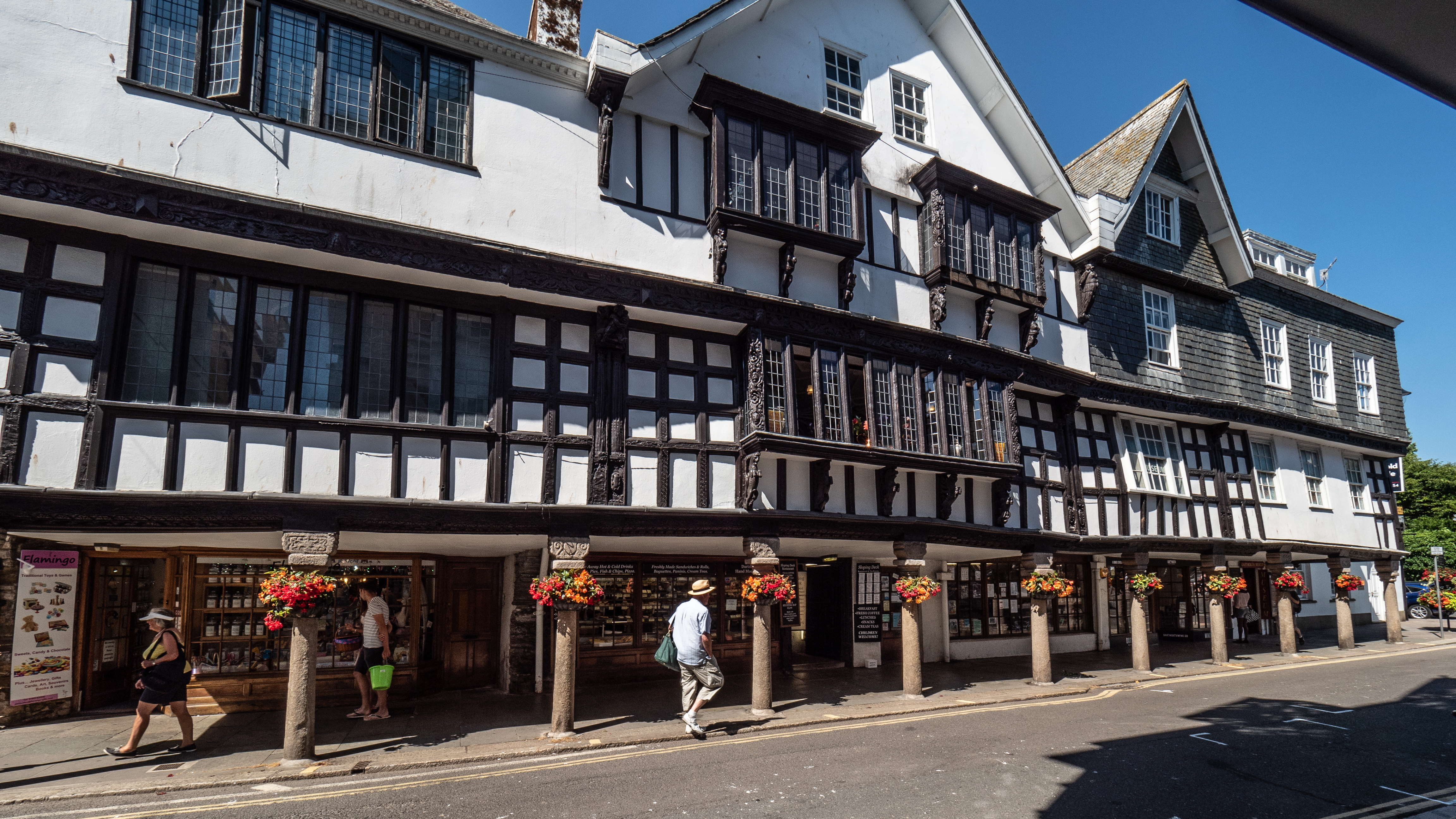 half timbered house in Dartmouth